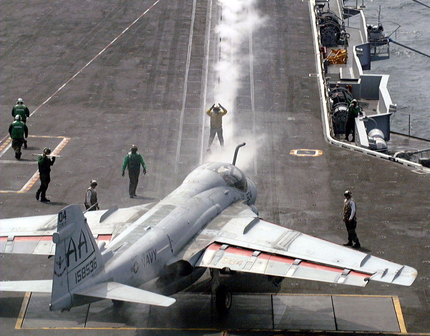 An A-6E Intruder aircraft assigned to the "Sunday Punchers" of Attack Squadron Seven Five (VA 75) takes up position on catapult one, during launch and recovery operations on board the US Navy's nuclear powered aircraft carrier USS ENTERPRISE (CVN 65). Enterprise is participating in the Combined Joint Task Force Exercise (CJTFX) '96, as part of a multinational force of over 50,000 Soldiers, Sailors, Airman and Marines from Canada, Britain and the United States.